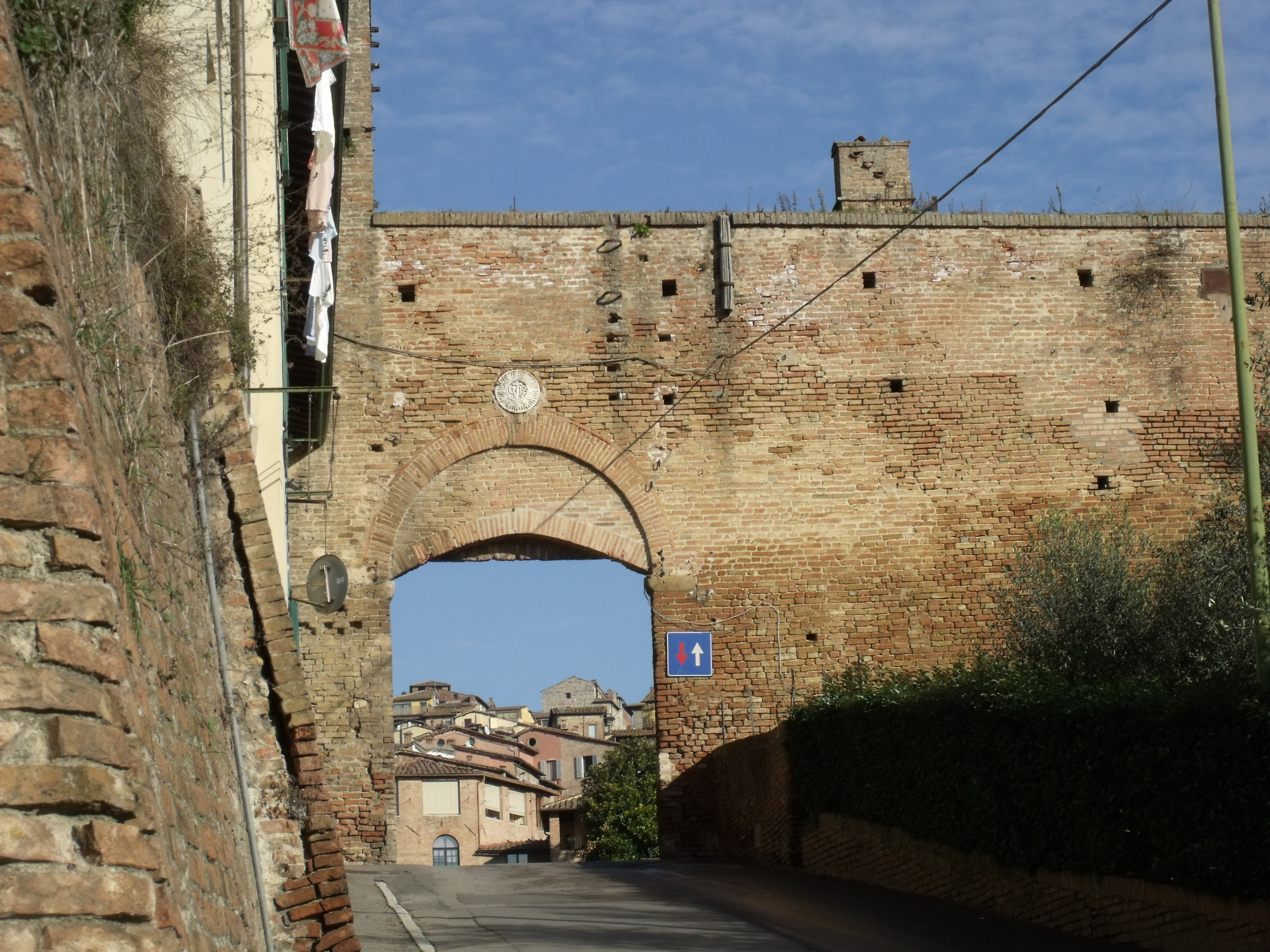 The City Gate Porta Fontebranda (Siena, Province of Siena, Tuscany, Italy)